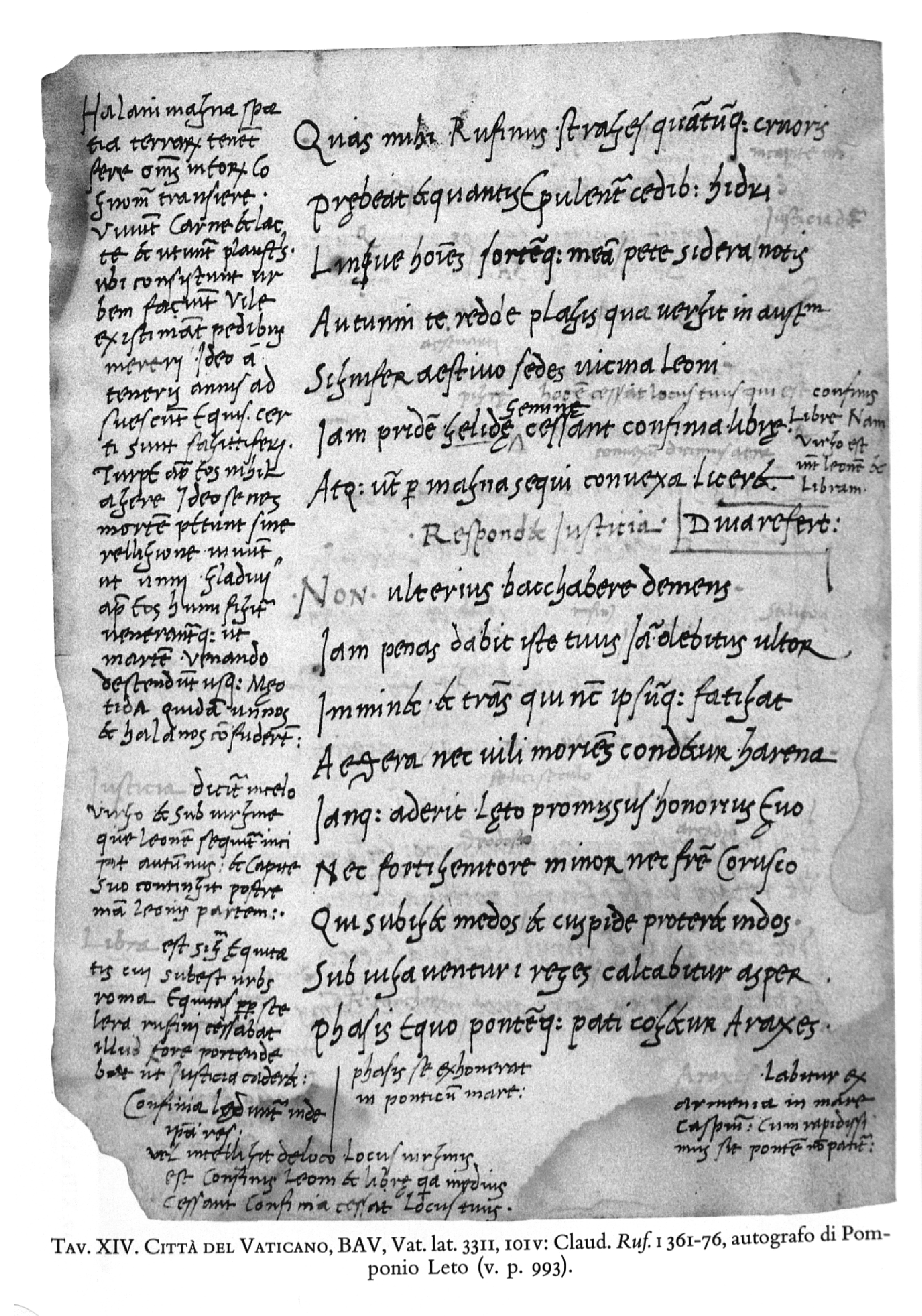 Manuscript of Claudian In Rufinum 1361–1376 written and commented by Julius Pomponius Laetus. Vaticanus latinus 3311, folium 101 verso; 15th century.